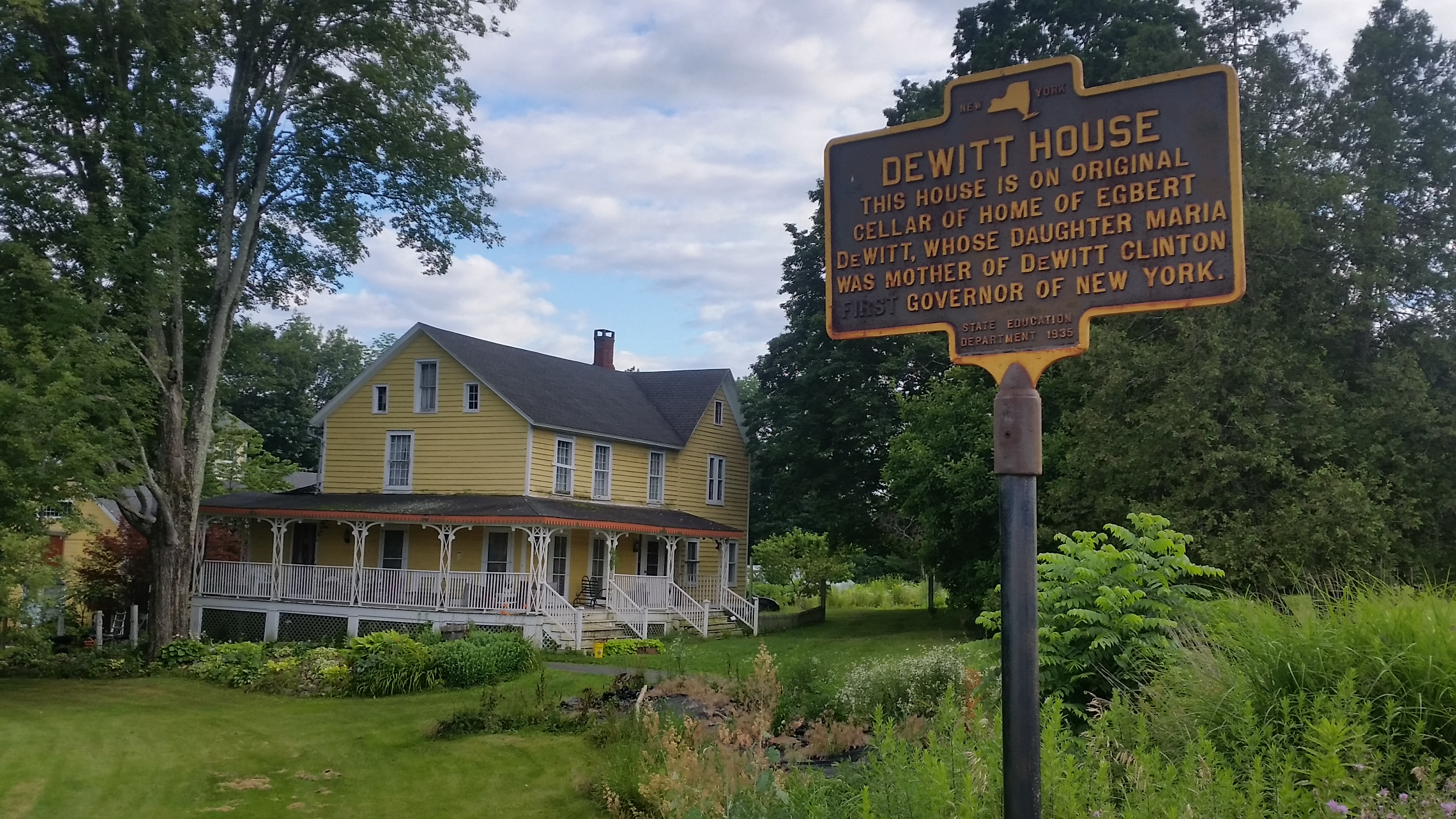 NY State historical marker for the DeWitt House